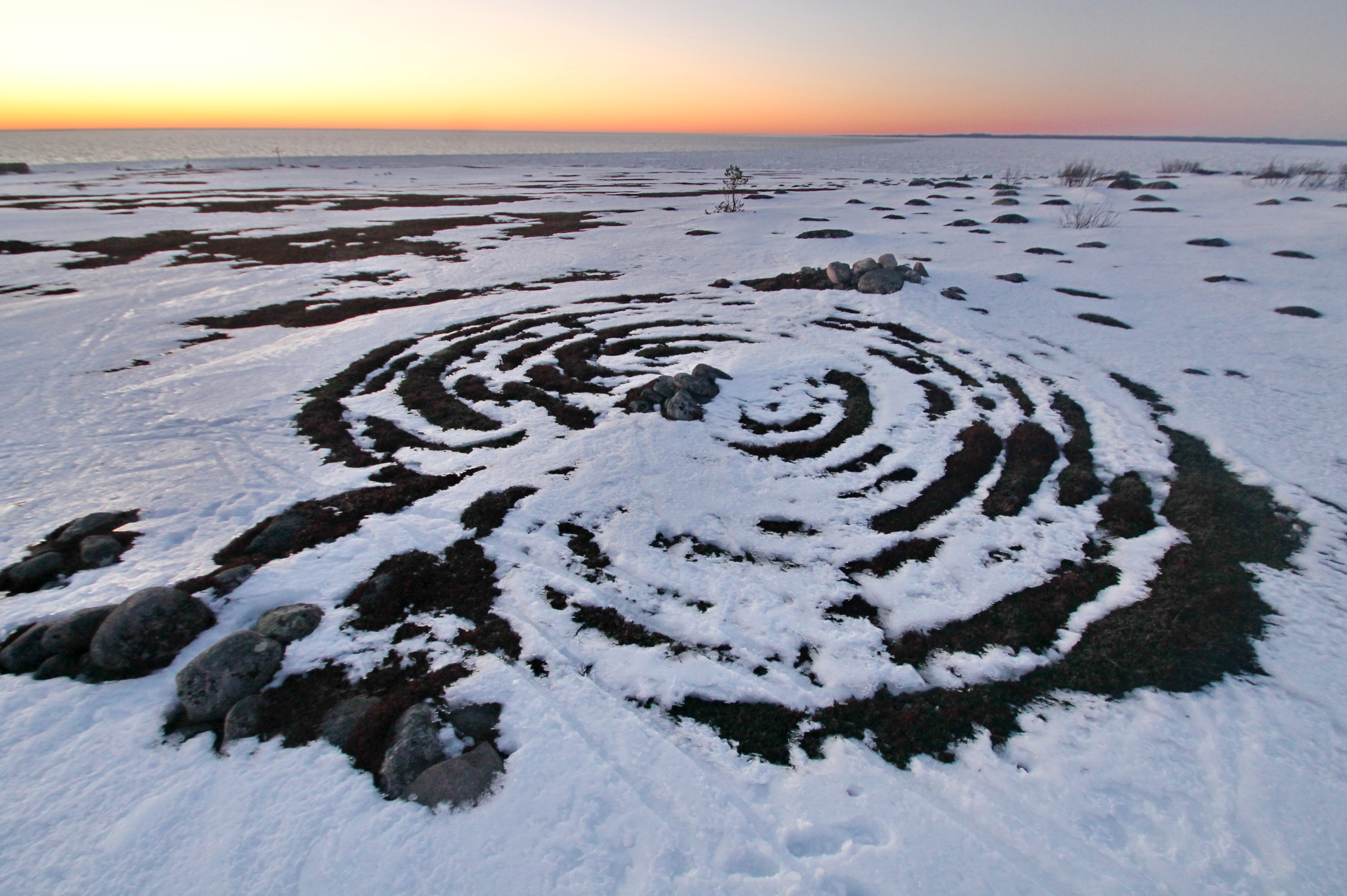 Stone labyrinth in winter